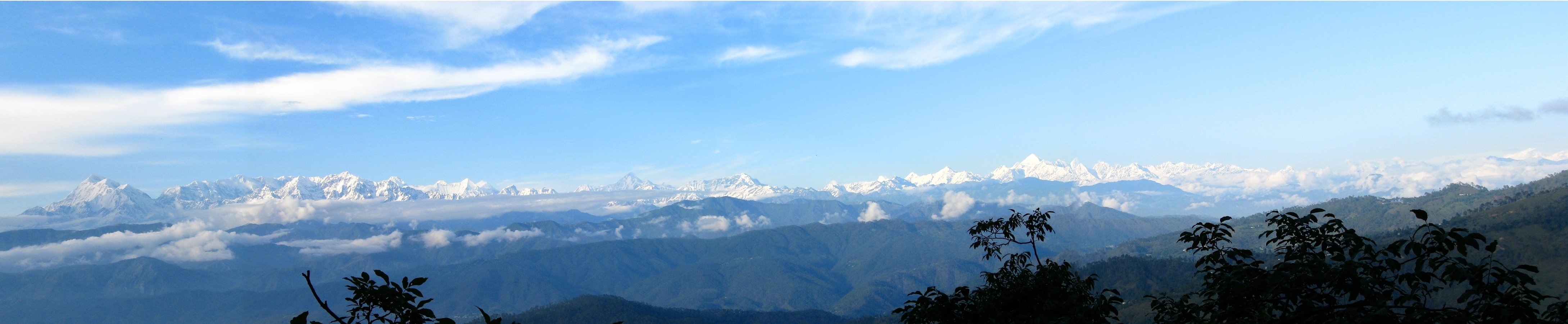 Panoramic view of the Himalayas from Kausani, Uttarakhand. Flickr uploader's description: "Himalayas from Kausani. Shot almost an year ago.. and want to go back.."